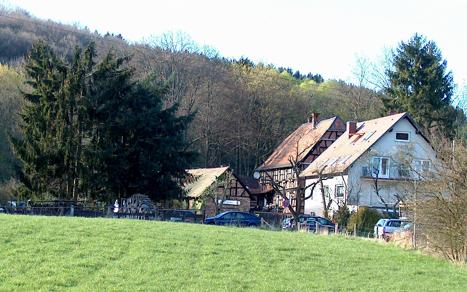 Beidenauer Mühle at Altehain/Bad Soden, Germany